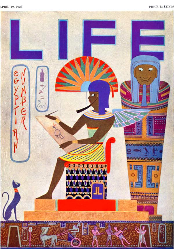 LIFE Magazine Cover (19 Apr 1923)